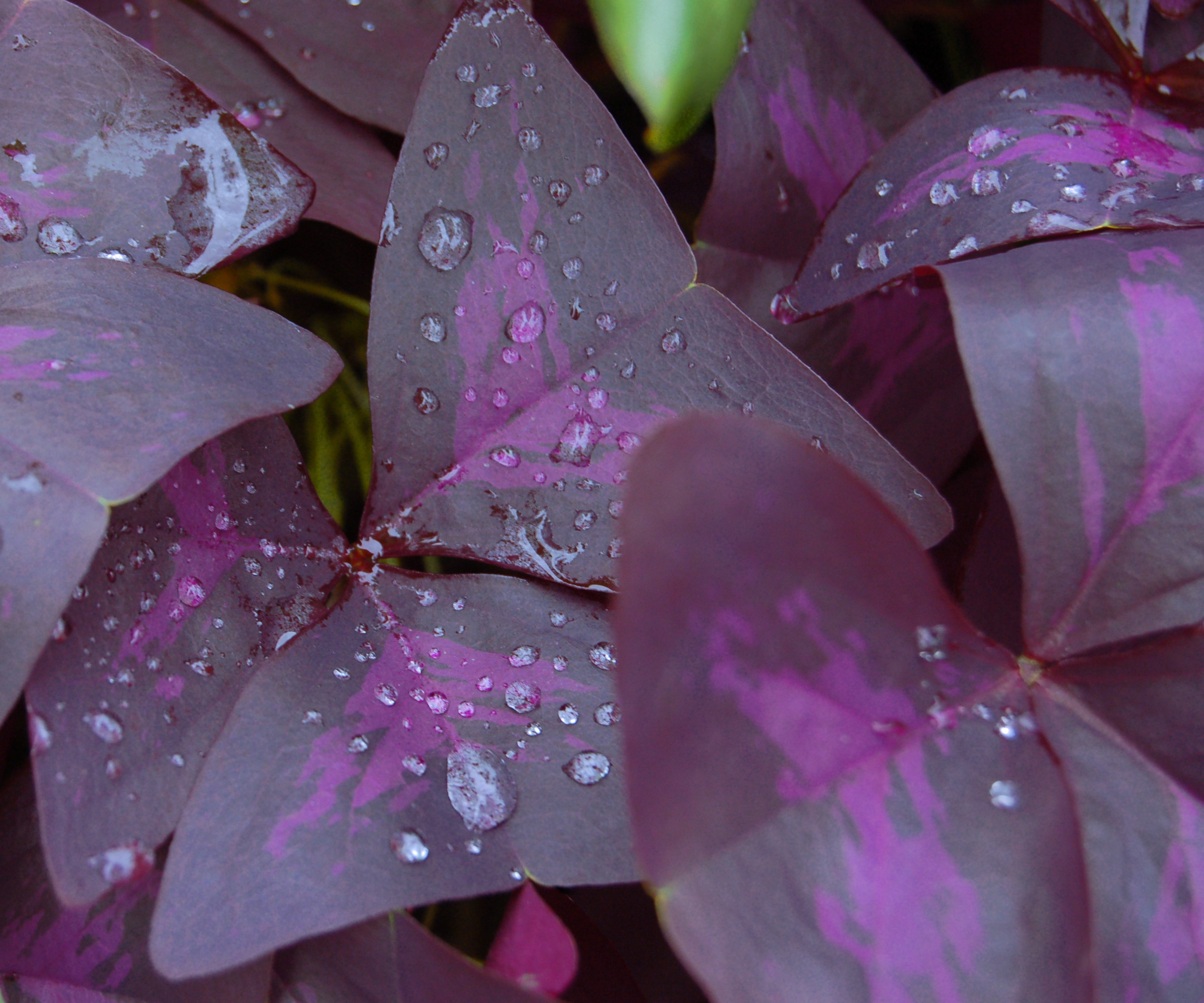 Picture of the leaves of the Purple Shamrock (Oxalis regnellii). Photo taken at the Chanticleer Garden where it was identified.